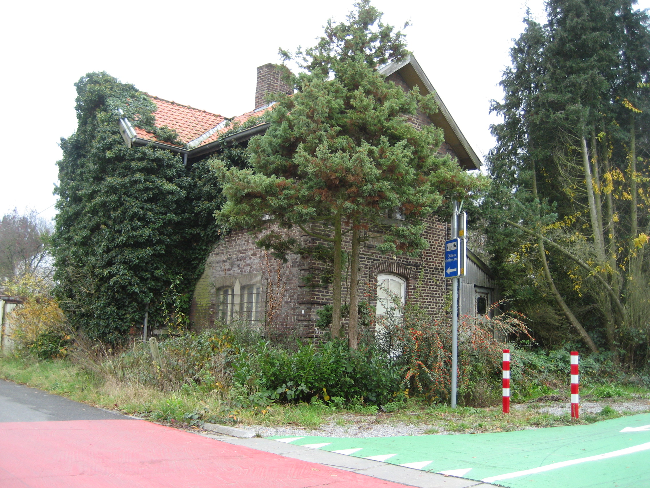 Ligne 112 Goutroux, Xing Rue Victor Vandekerkhove